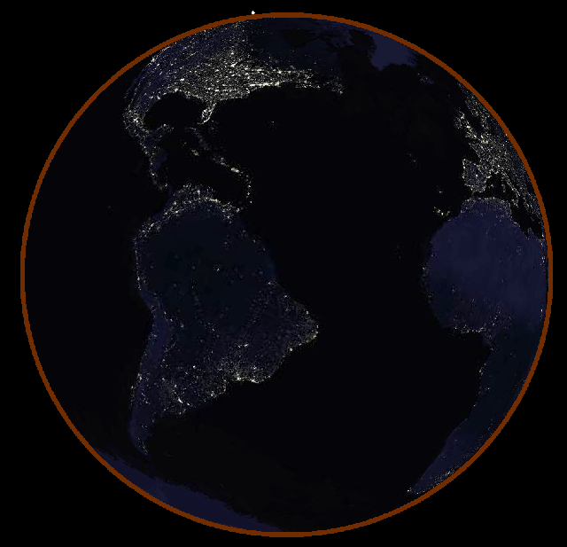 Lunar eclipse simulation of view from moon